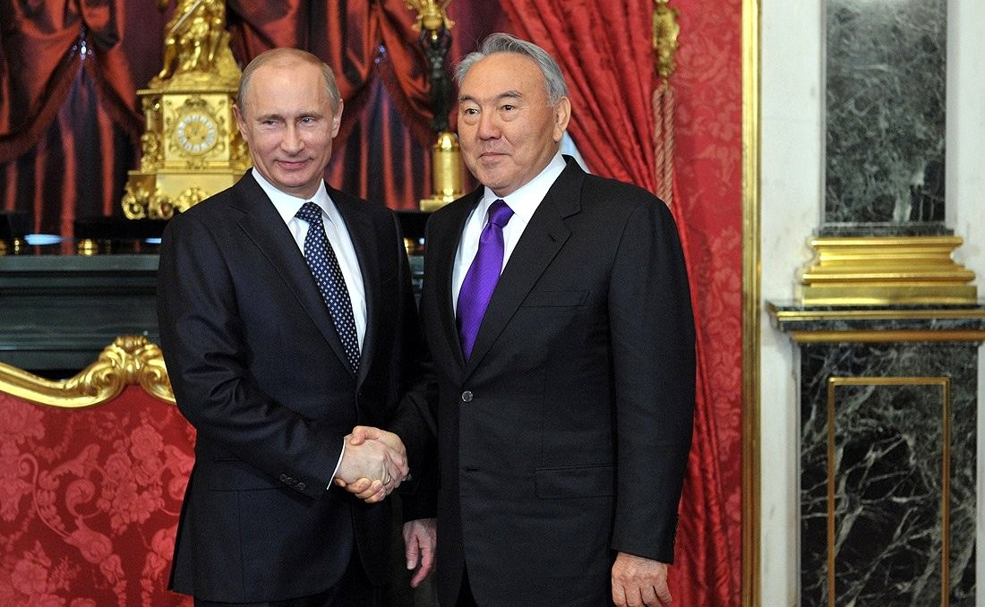 CSTO Collective Security Council meeting in the Kremlin, Moscow 2012-12-19.